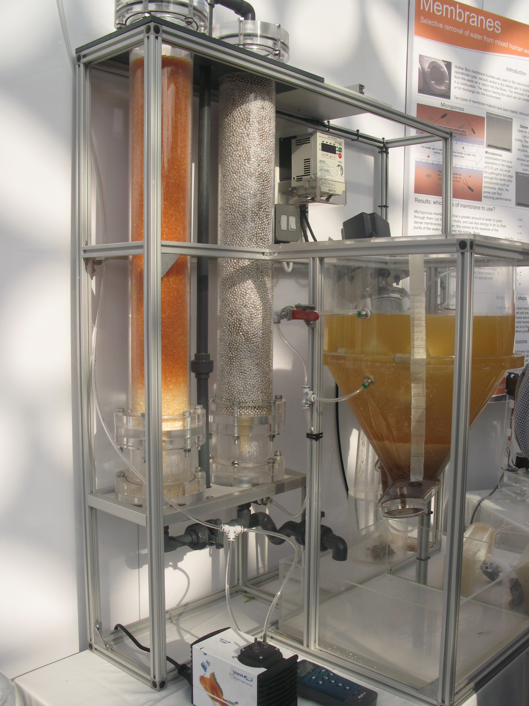 The Nano Membrane Toilet Cranfield University UK